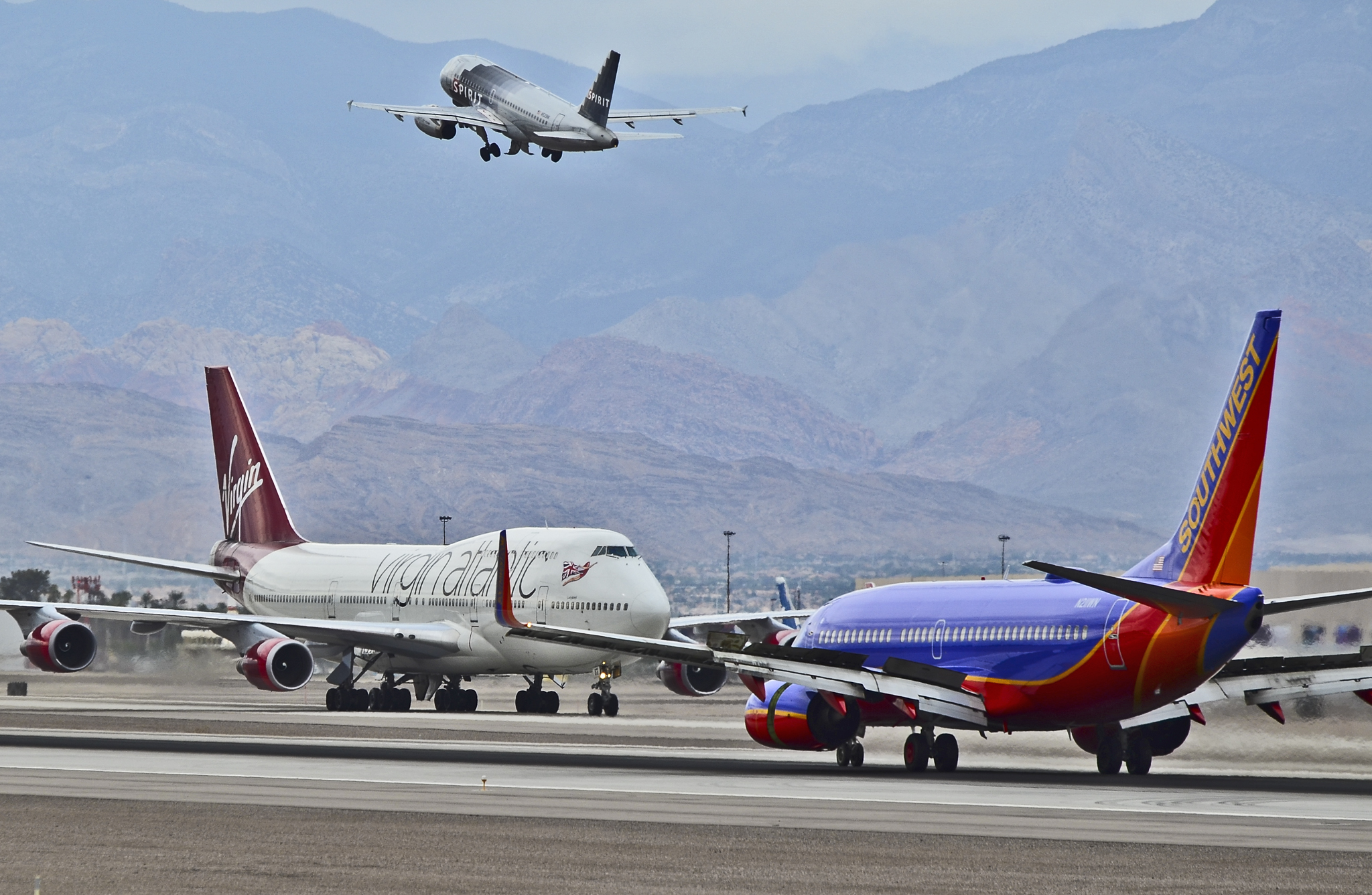 McCarran International Airport (KLAS) Las Vegas, Nevada TDelCoro October 09, 2013